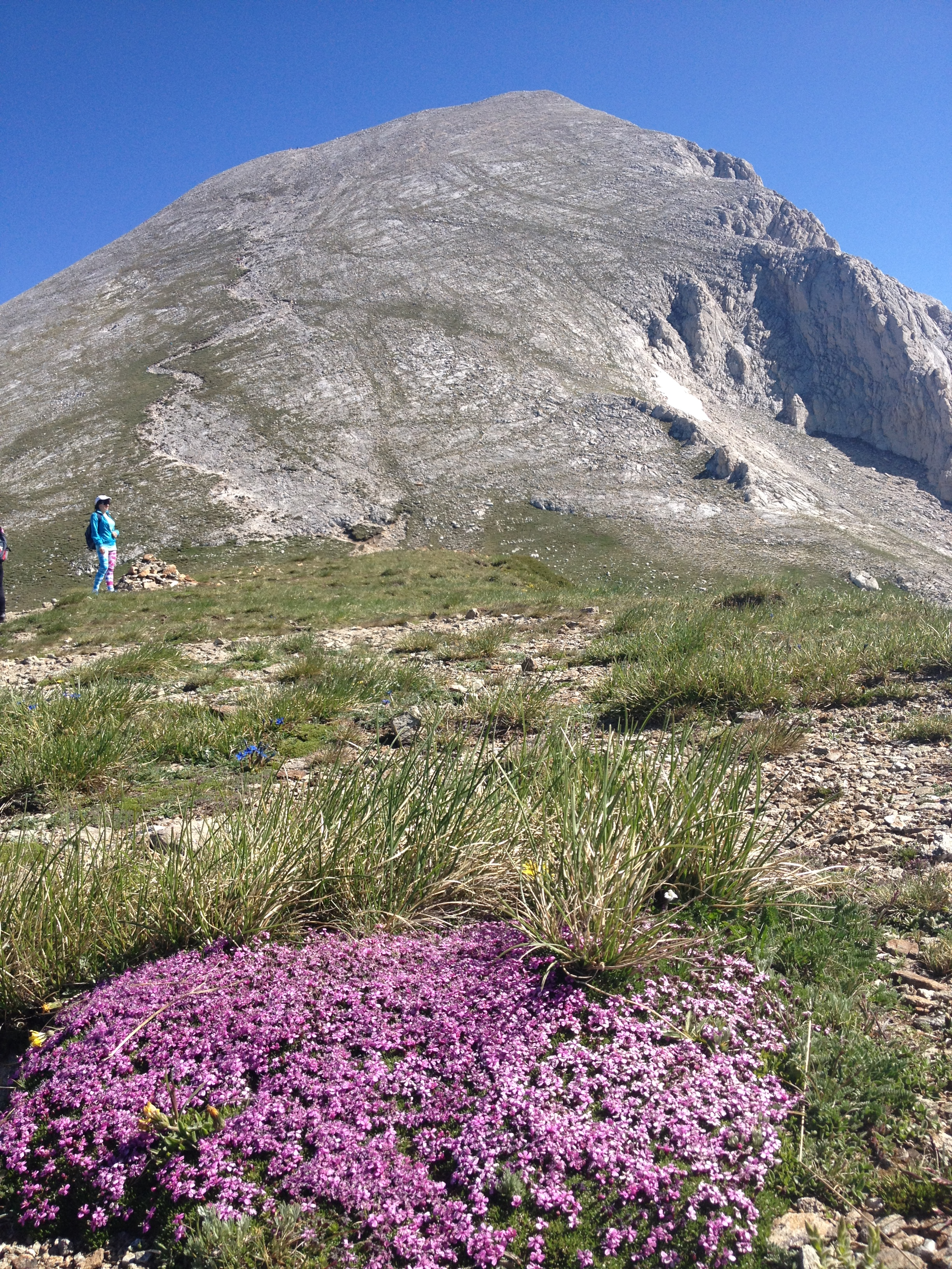 Peak Vihren, Pirin mountain